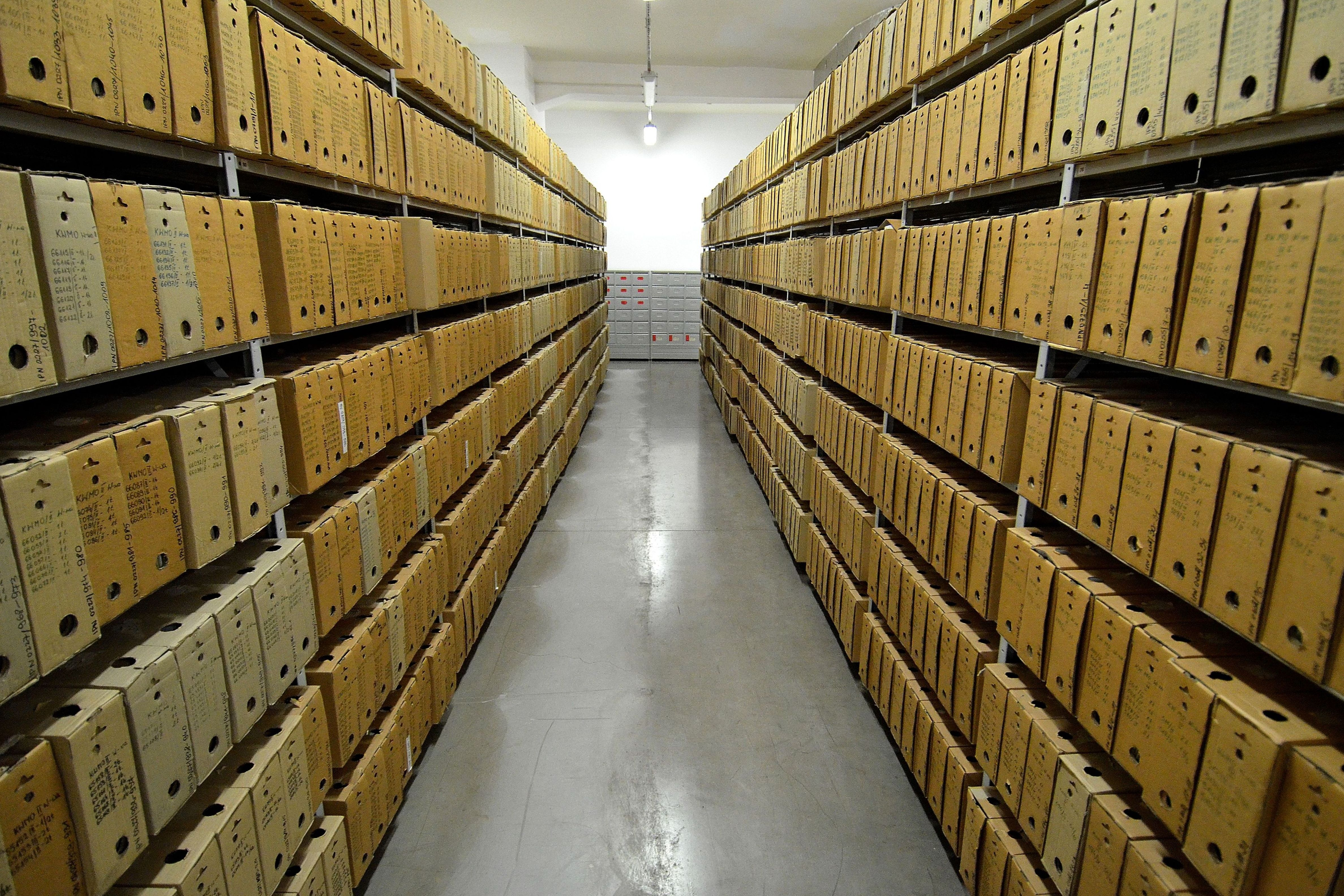 Documents at the IPN HQ at 28 Towarowa Street in Warsaw